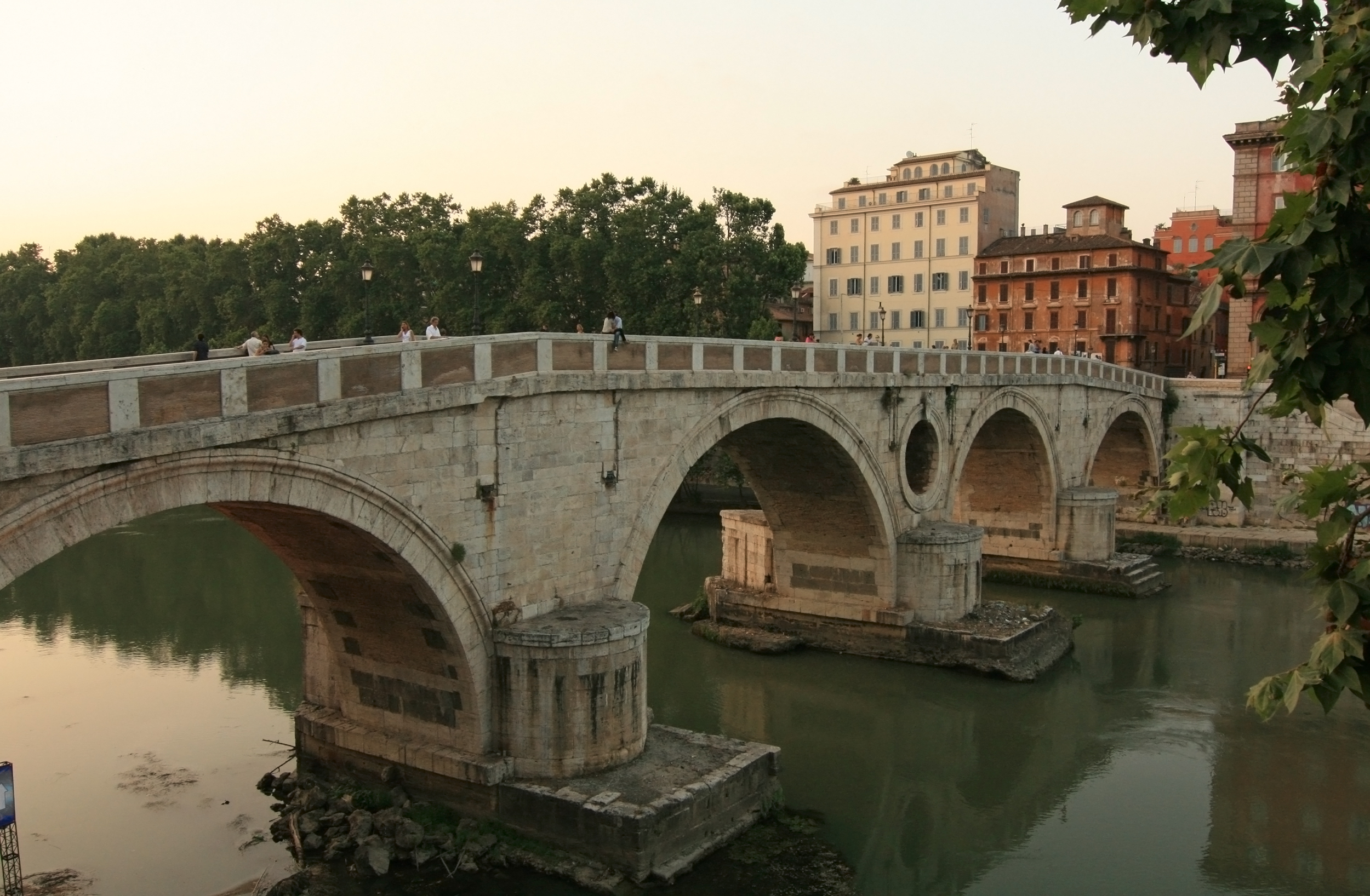 Ponte Sisto, Rome, in the evening. Seen from Trastevere.